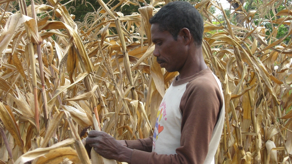 Seeds of life maize: One of the high-yielding maize varieties (SW5) that has been tested through the Seeds of Life program in district Liquiçá, East Timor, 2010.